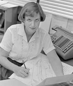 Photo from JPL article - The Venus Mission: How Mariner 2 led the world to the planets.